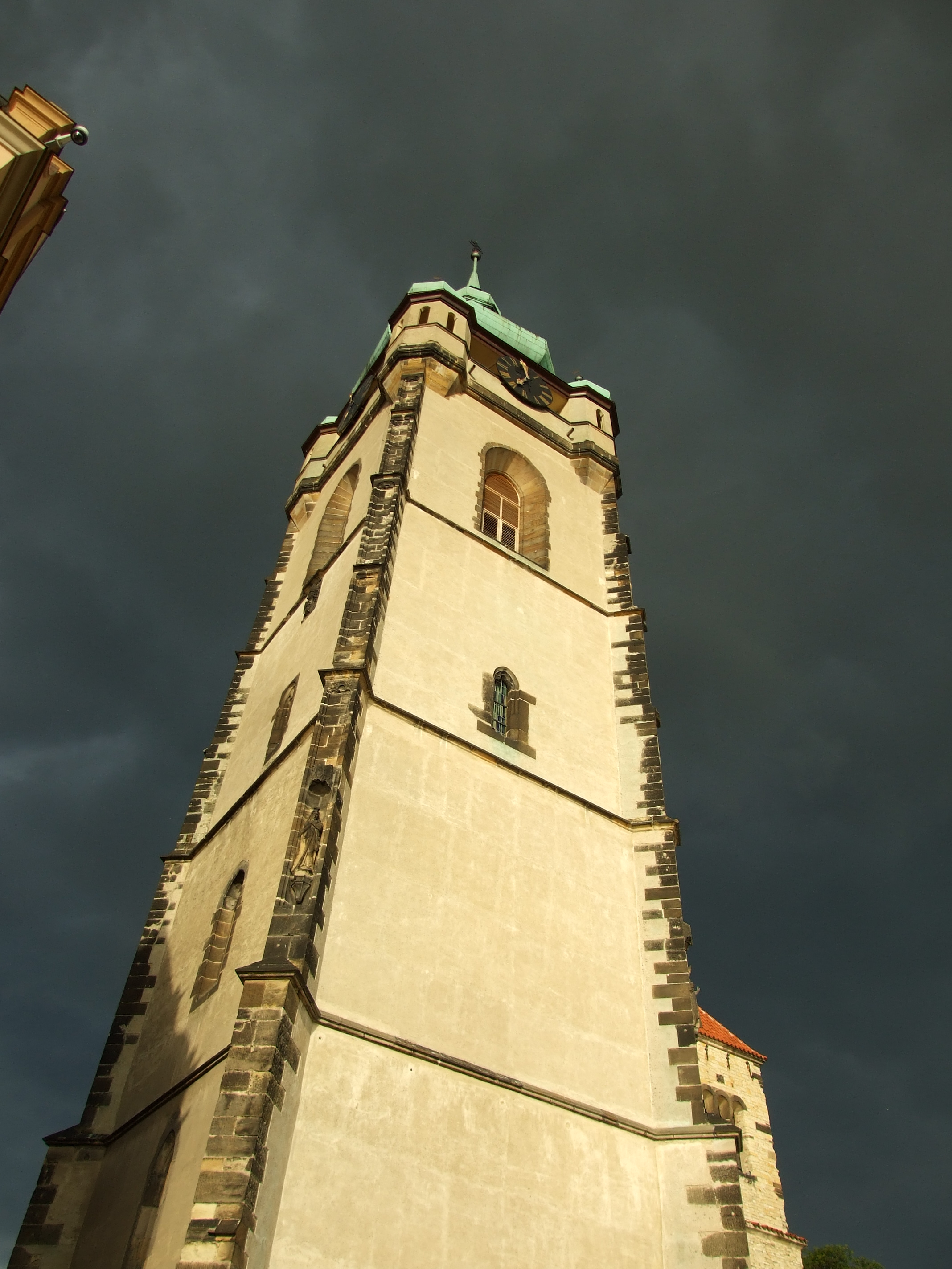 Mělník Church, important landmark and symbol of the city of Mělník. Central Bohemian Region, CZhelp